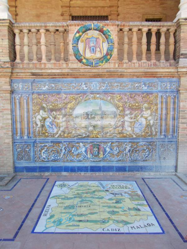 Fuente